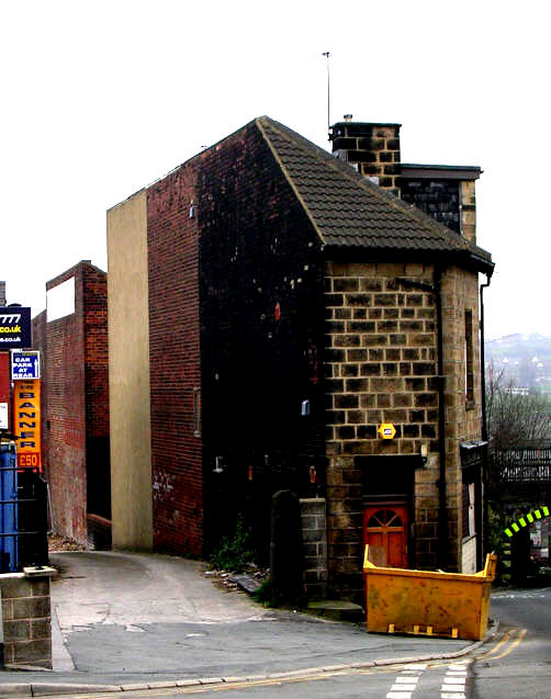 Blind backed Terrace housing - Swinnow Road, Bramley These properties are situated near Bramley Station